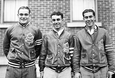 The "Kid Line" of Charlie Conacher, Joe Primeau and Busher Jackson, one of the National Hockey League's famed scoring lines of the 1930s.